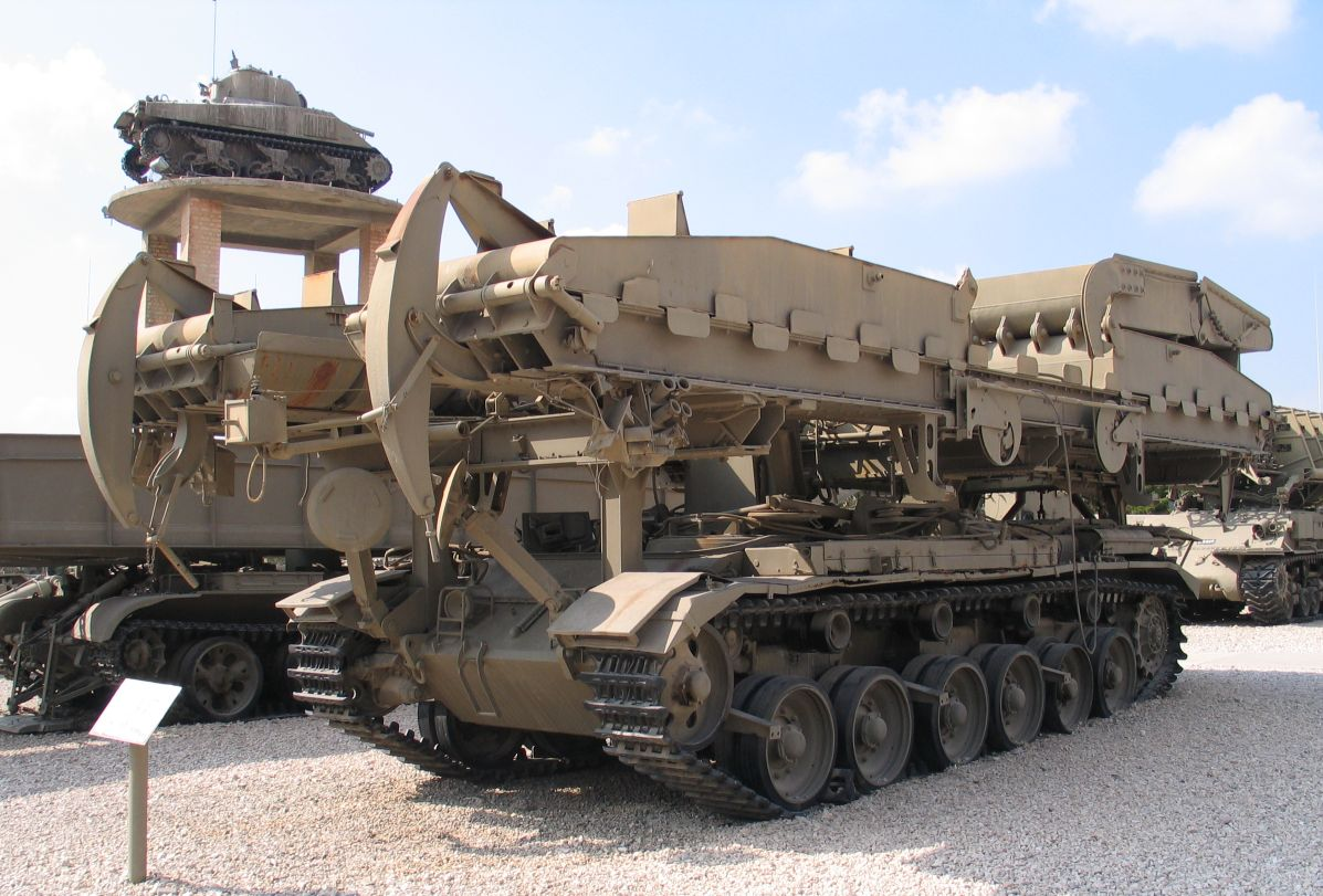 Description: Centurion ARK (Armoured Ramp Carrier) in Yad la-Shiryon Museum, Israel. 2005. Source: Photo by me, User:Bukvoed.